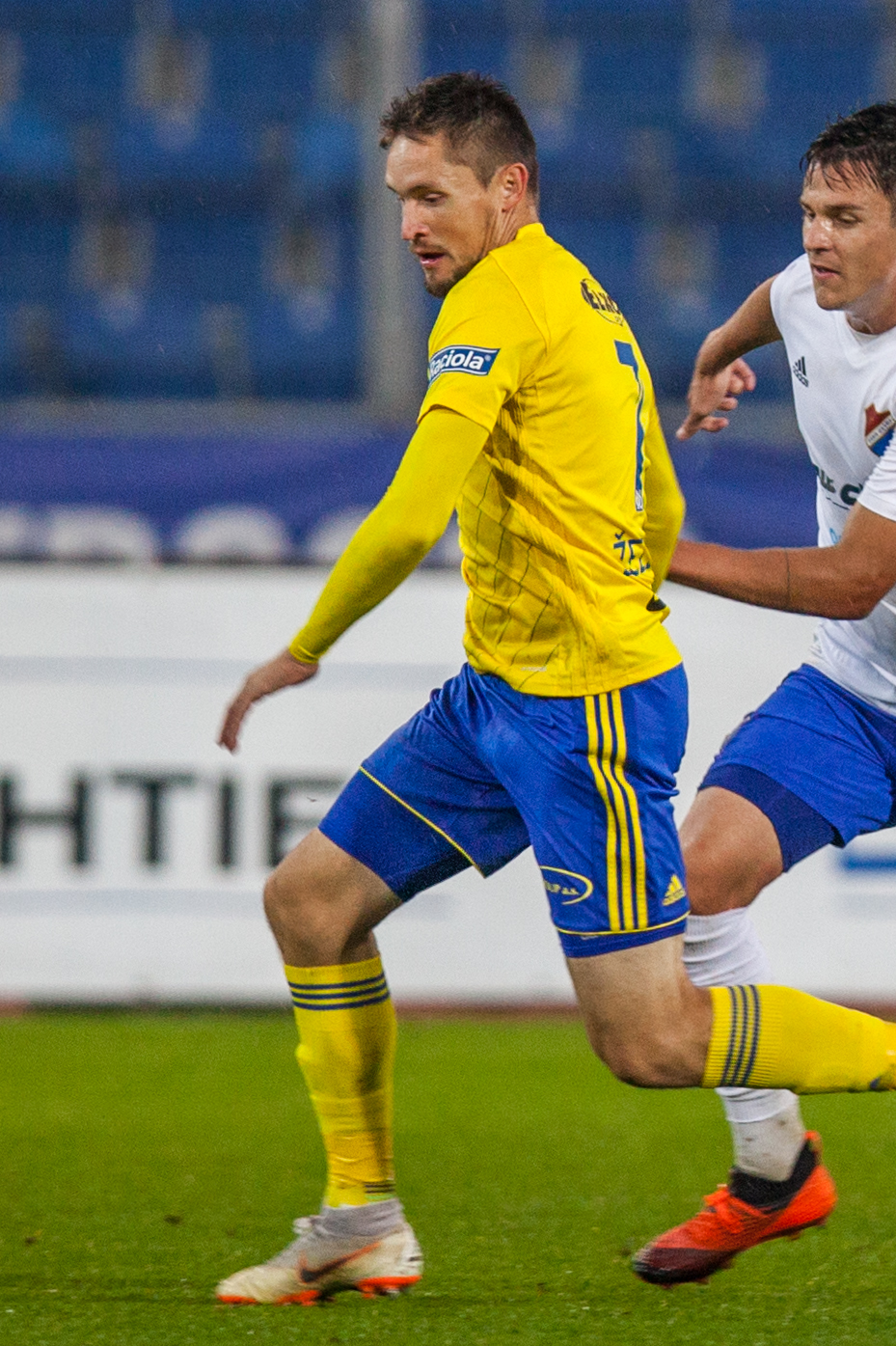 Lukáš Železník & Jakub Pokorný in a Czech First League (Fortuna:Liga) match between FC Baník Ostrava and FC Fastav Zlín (4:0), 5 October 2019, Městský stadion Ostrava, Ostrava-Vítkovice, Ostrava-City District, Moravian-Silesian Region, Czechia Personality rights warningAlthough this work is freely licensed or in the public domain, the person(s) shown may have rights that legally restrict certain re-uses unless those depicted consent to such uses. In these cases, a model release or other evidence of consent could protect you from infringement claims.